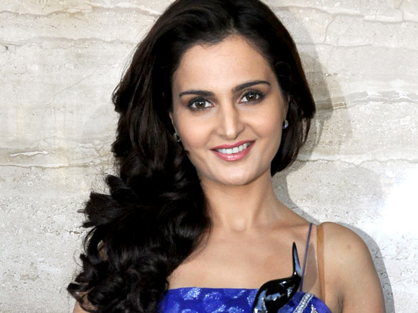 Monica bedi